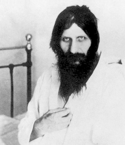 Rasputin in a hospital gown (after an attempt of assassination on July 12, 1914)